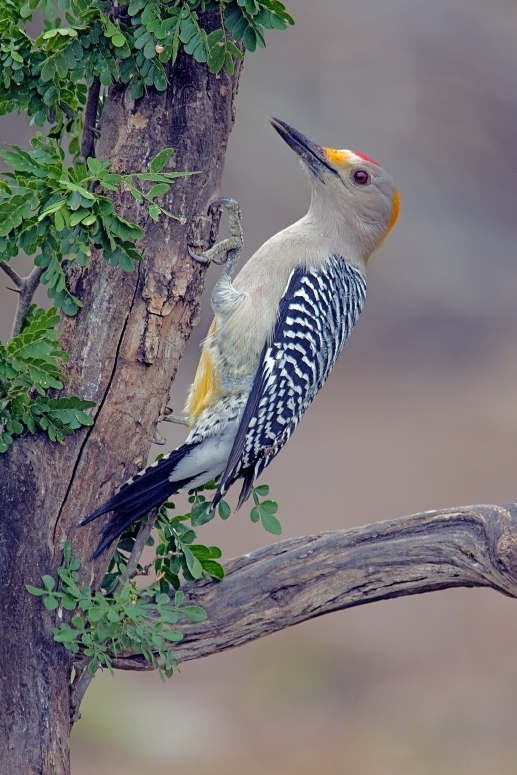 Golden-Fronted Woodpecker (Melanerpes aurifrons), Roma, Texas